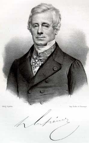 Pierre Armand Dufrenoy (1792 - 1857)